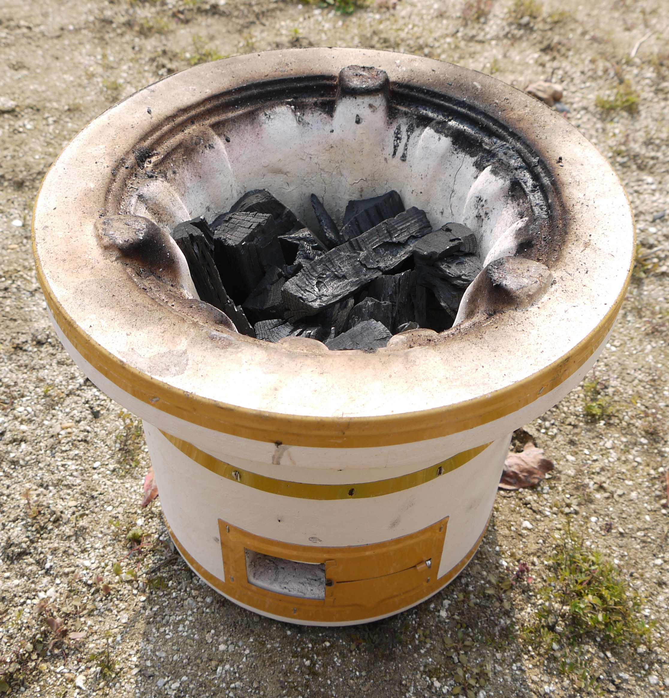 == Licensing: ==